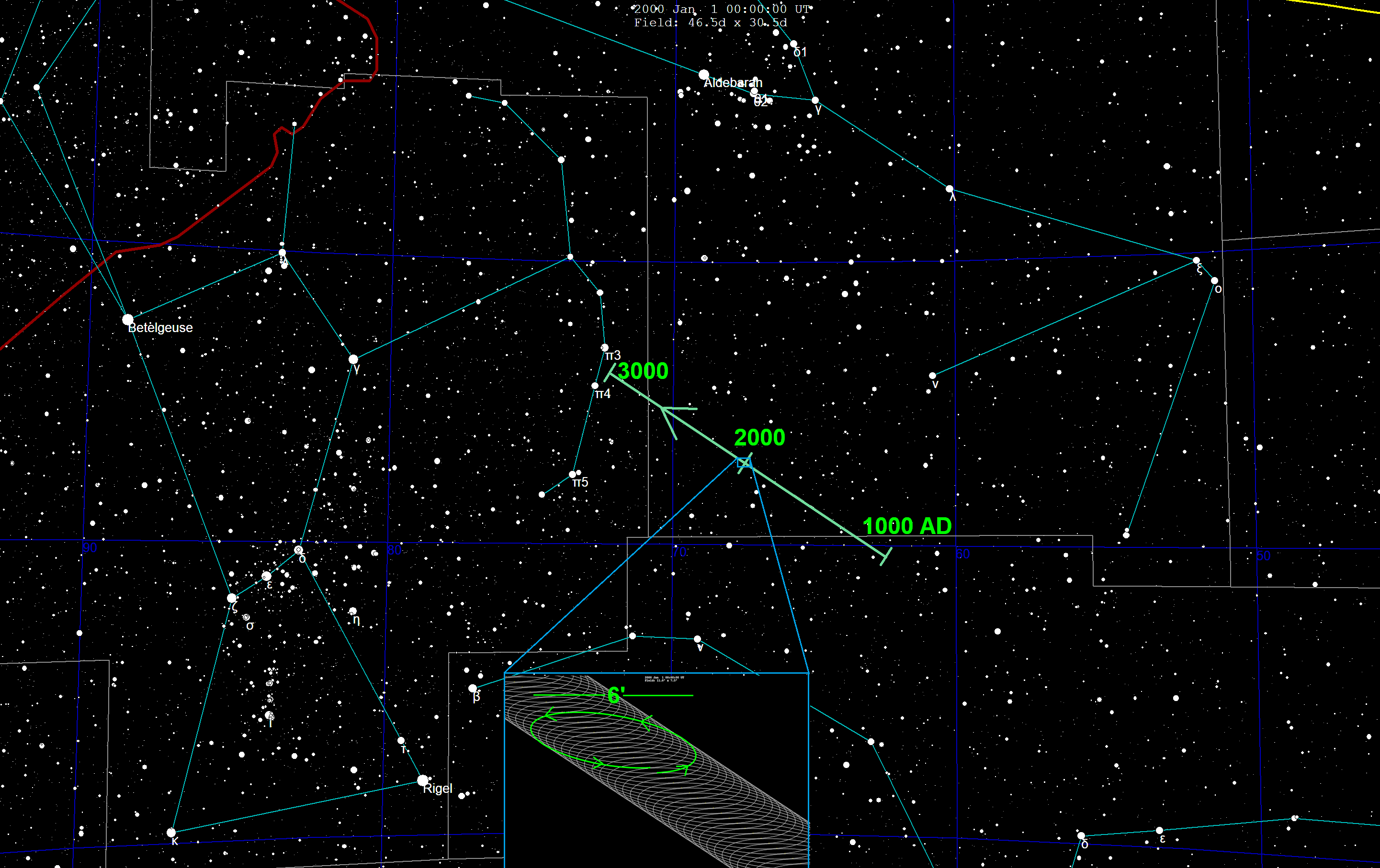 Hypothetical motion of Planet 9 across Orion from 1000 to 3000 AD, corresponds to simulated view hovering over P9 here File:Planet nine artistic plain2.png